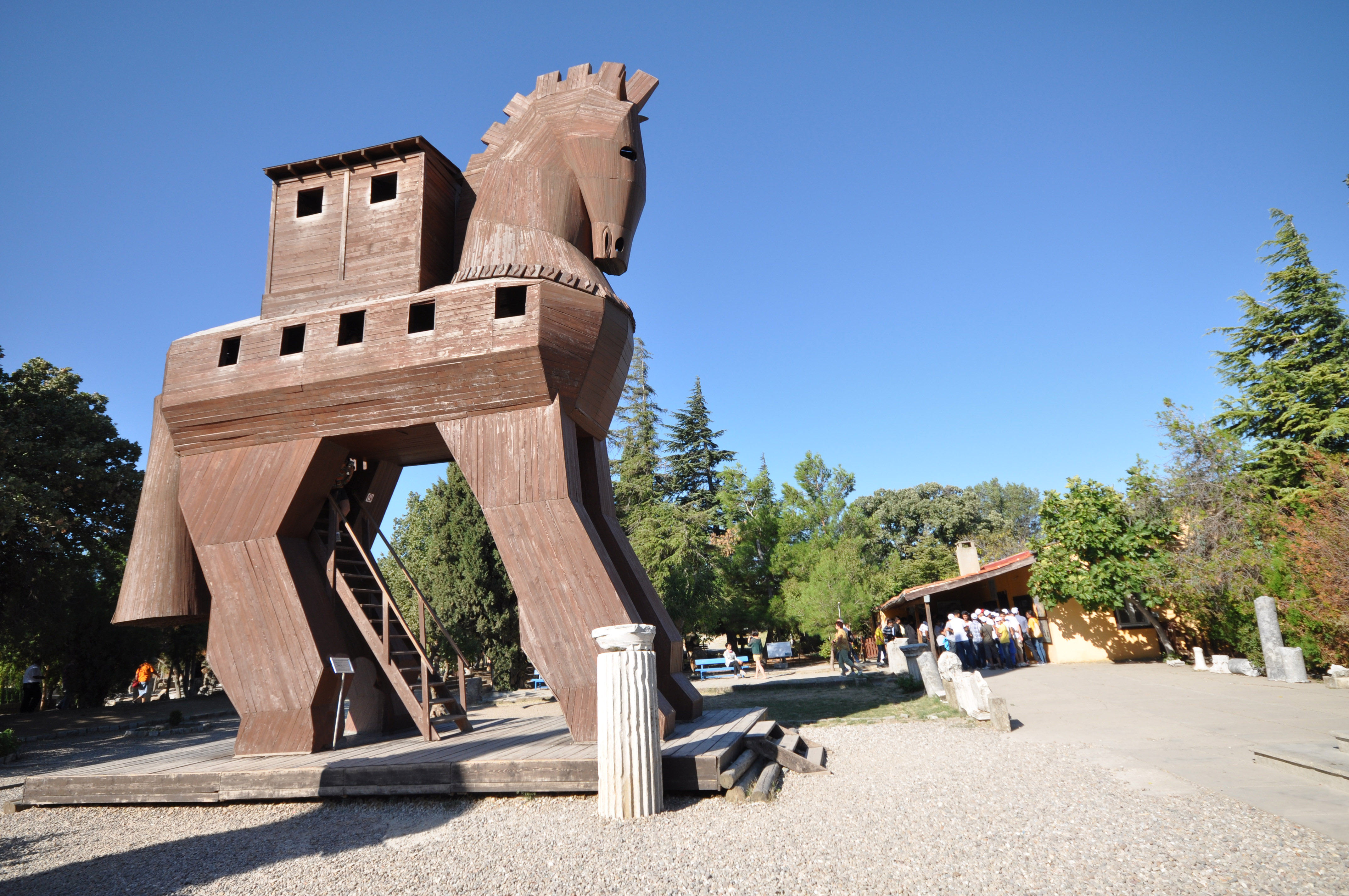 Troy was a city, both factual and legendary, in northwest Anatolia in what is now Turkey, south of the southwest end of the Dardanelles / Hellespont and northwest of Mount Ida. It is best known for being the setting of the Trojan War described in the Greek Epic Cycle and especially in the Iliad, one of the two epic poems attributed to Homer. Metrical evidence from the Iliad and the Odyssey seems to show that the name Ἴλιον (Ilion) formerly began with a digamma: Ϝίλιον (Wilion). This was later supported by the Hittite form Wilusa. A new city called Ilium was founded on the site in the reign of the Roman Emperor Augustus. It flourished until the establishment of Constantinople and declined gradually during the Byzantine era. In 1865, English archaeologist Frank Calvert excavated trial trenches in a field he had bought from a local farmer at Hisarlık, and in 1868, Heinrich Schliemann, wealthy German businessman and archaeologist, also began excavating in the area after a chance meeting with Calvert in Çanakkale. These excavations revealed several cities built in succession. Schliemann was at first skeptical about the identification of Hissarlik with Troy, but was persuaded by Calvert and took over Calvert's excavations on the eastern half of the Hissarlik site, which was on Calvert's property. Troy VII has been identified with the Hittite Wilusa, the probable origin of the Greek Ἴλιον, and is generally (but not conclusively) identified with Homeric Troy. Today, the hill at Hisarlik has given its name to a small village near the ruins, supporting the tourist trade visiting the Troia archaeological site. It lies within the province of Çanakkale, some 30 km south-west of the provincial capital, also called Çanakkale. The nearest village is Tevfikiye. The map here shows the adapted Scamander estuary with Ilium a little way inland across the Homeric plain. Troia was added to the UNESCO World Heritage list in 1998